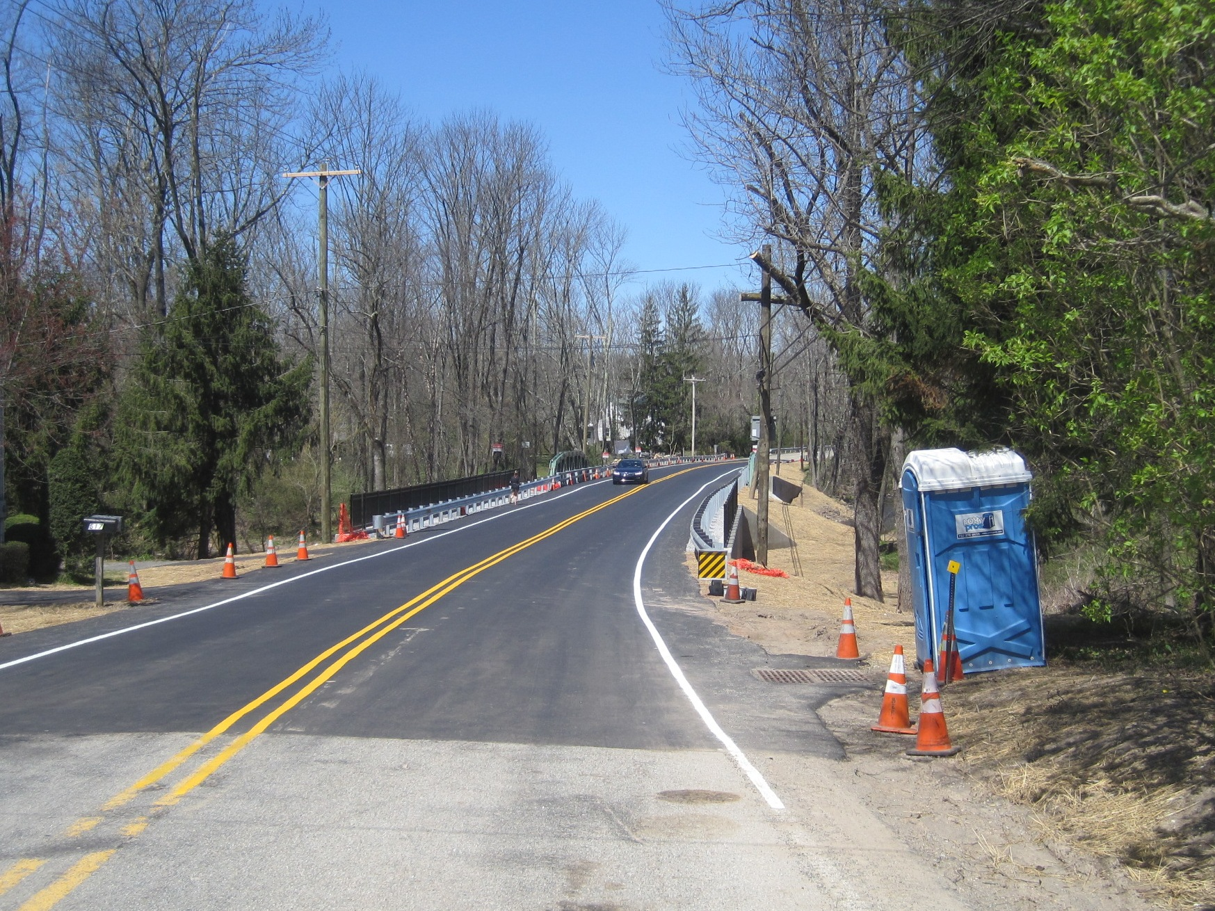 Photo of two new bridges that carry County Route 519 over the Lockatong Creek in Kingwood Township, New Jersey. The concrete culvert and truss bridge, both opened April 1, 2016, replaced an older truss bridge that collapsed in June 2014 due to an overweight vehicle. Photo taken looking north along CR 519 just past its intersection with Byram-Kingwood Road (CR 651).